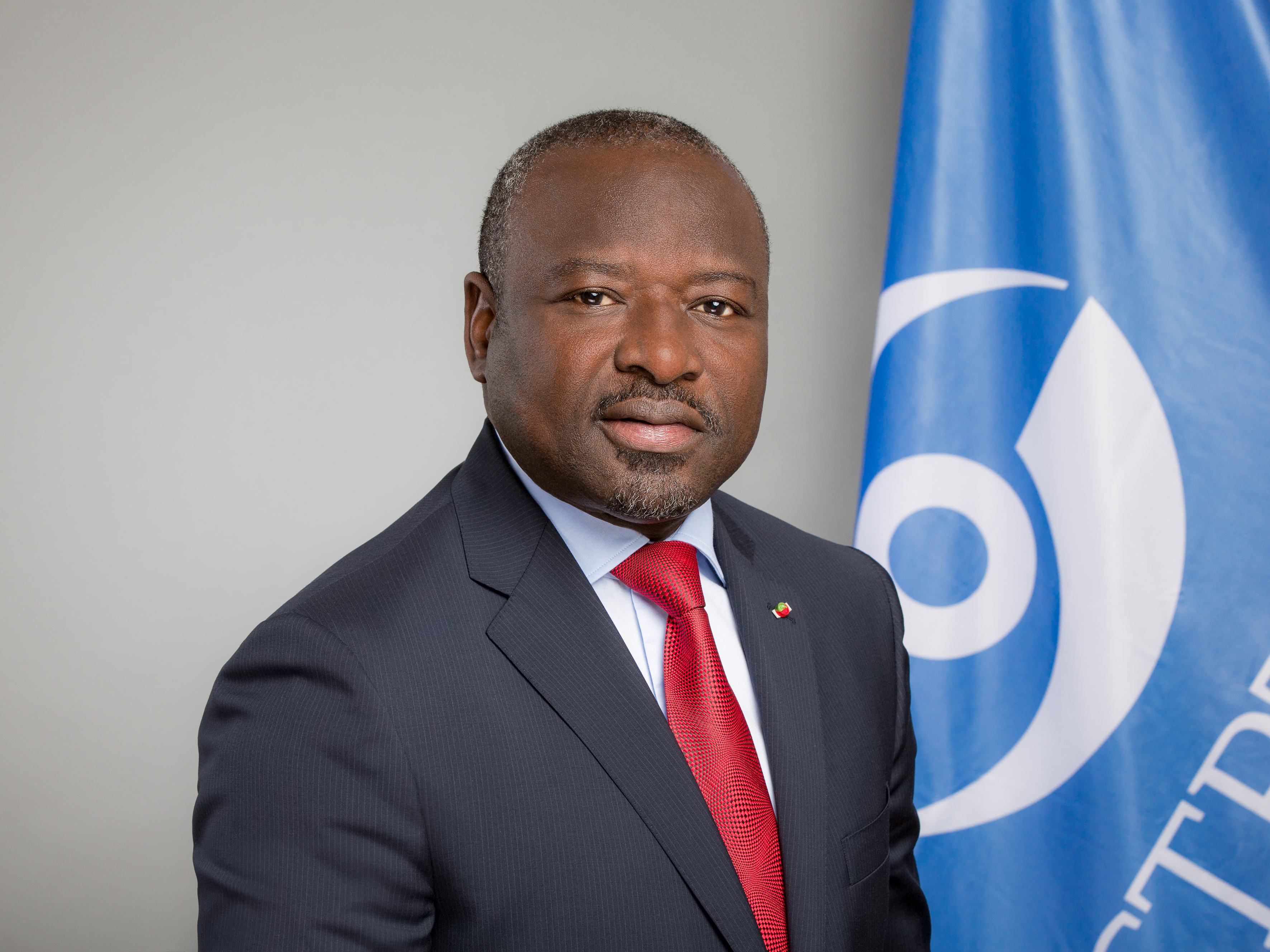 Portrait Dr Lassina Zerbo CTBTO 2015 by Photo Simonis